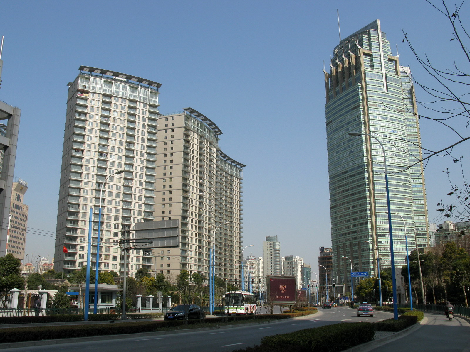 East Fuxing Road, Dadongmen